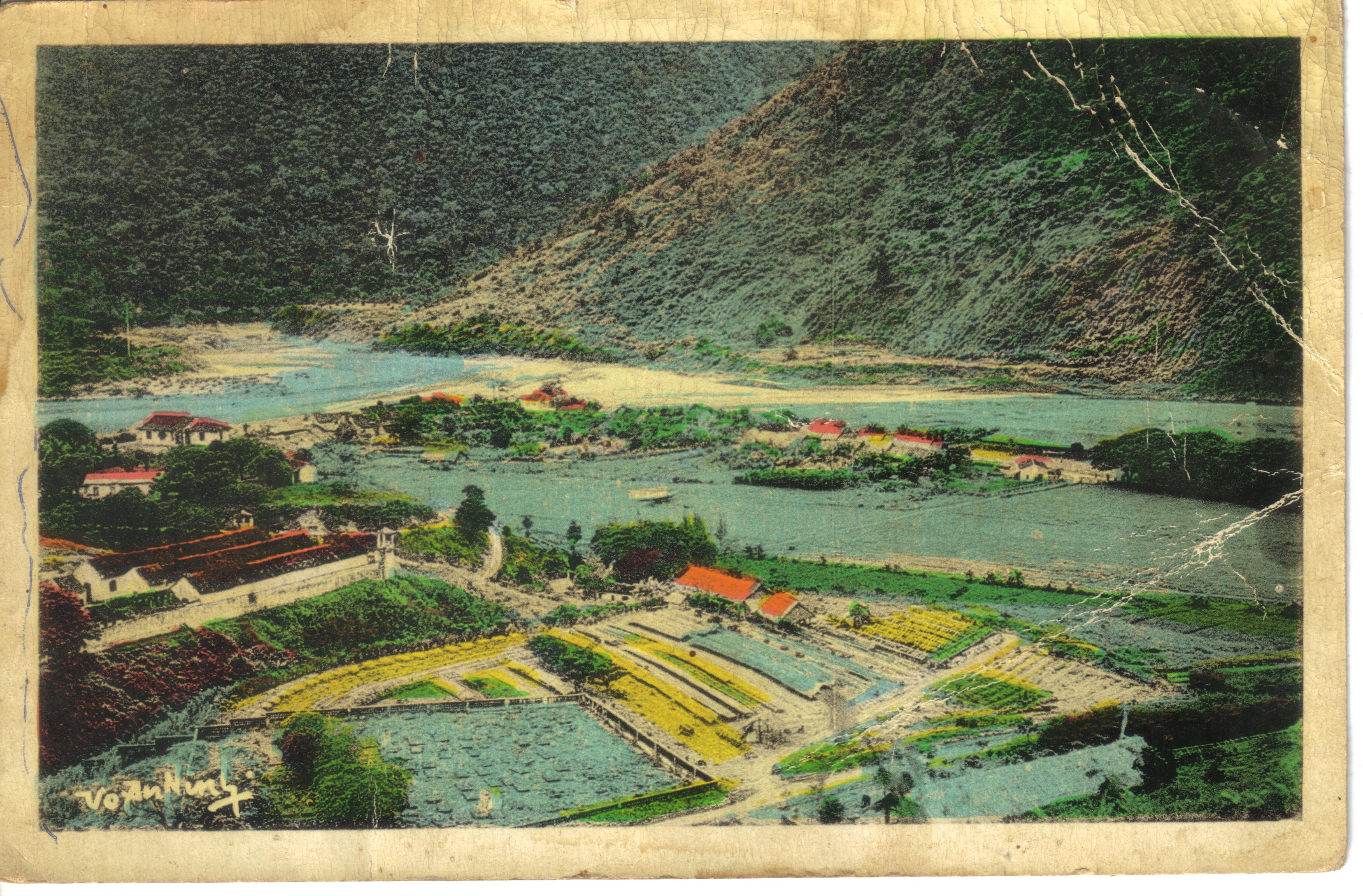 Le Pays Taï - Sa capitale Laï Chau vers 1920